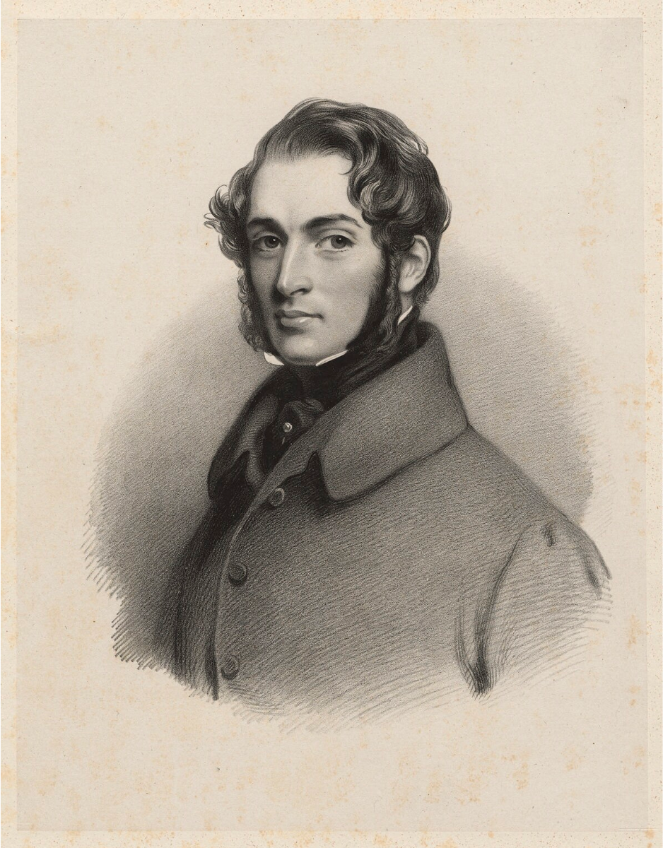 William Rickford Collett by Richard James Lane; lithograph, 1842. 11 3/4 in. x 9 1/8 in. (298 mm x 233 mm.